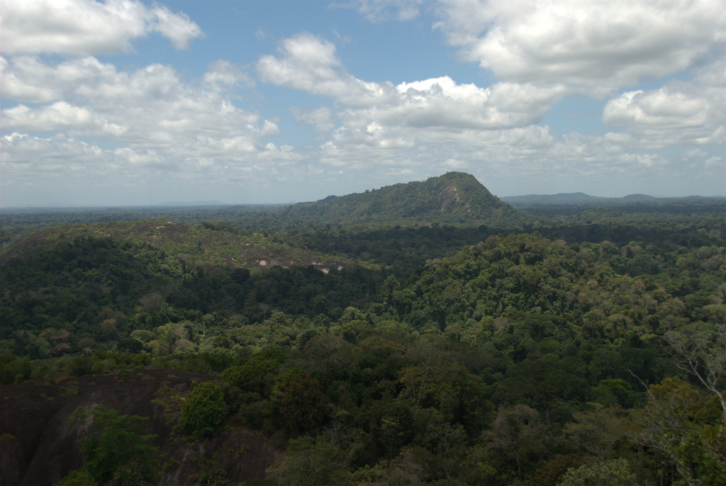 After an 8 hour hike in the jungle we were rewarded with this view from one of the most remote parts of the world, the Voltzberg, viewing the Van Stockumberg